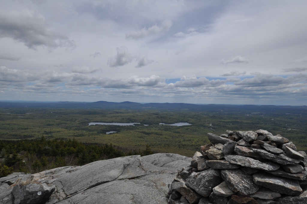 View roughly east from Mount Monadnock, Jaffrey, New Hampshire. Visible are Thorndike Pond in the center, and Pack Monadnock and North Pack Monadnock in the distance.